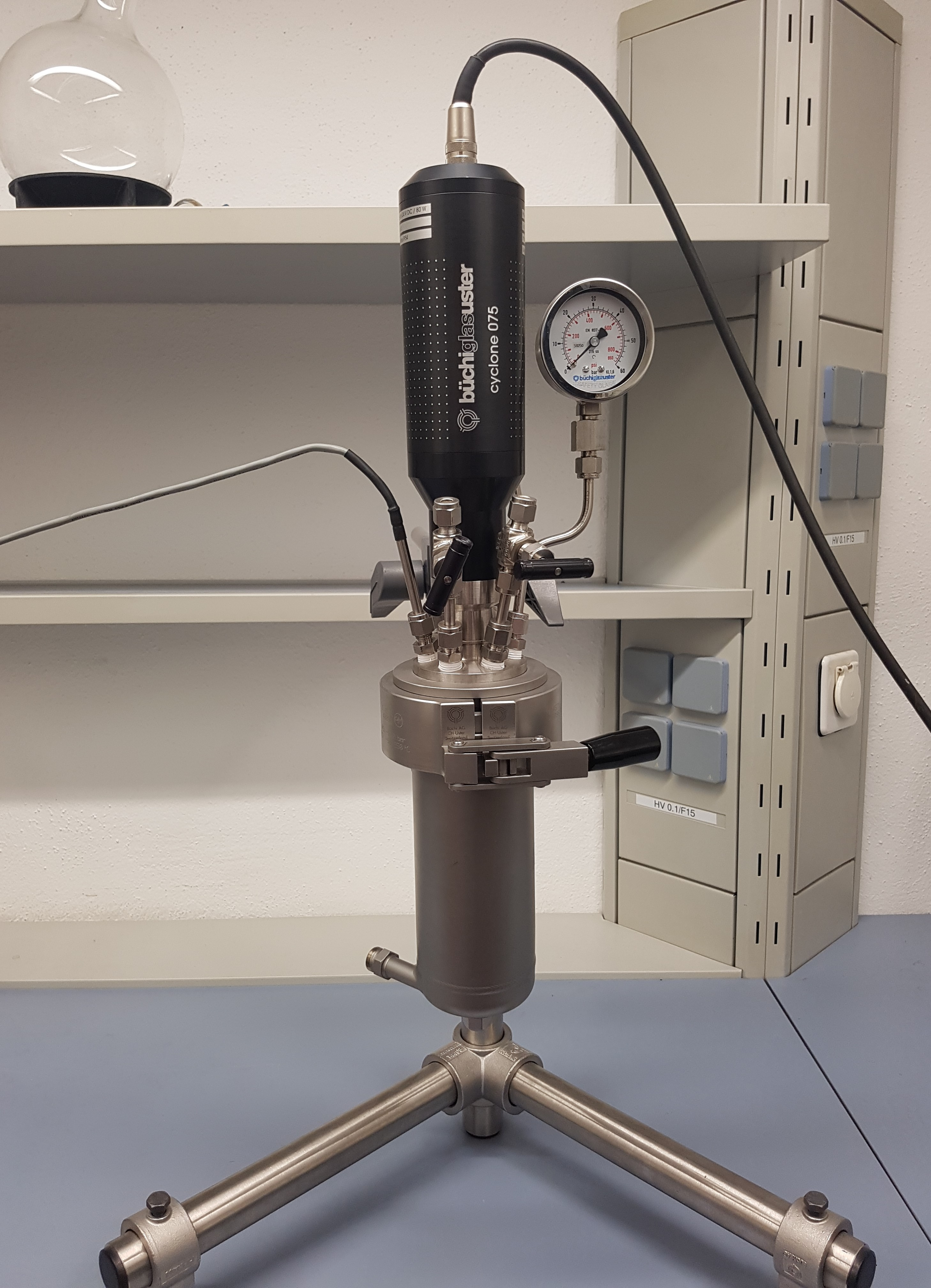 Stainless Steel pressure reactor